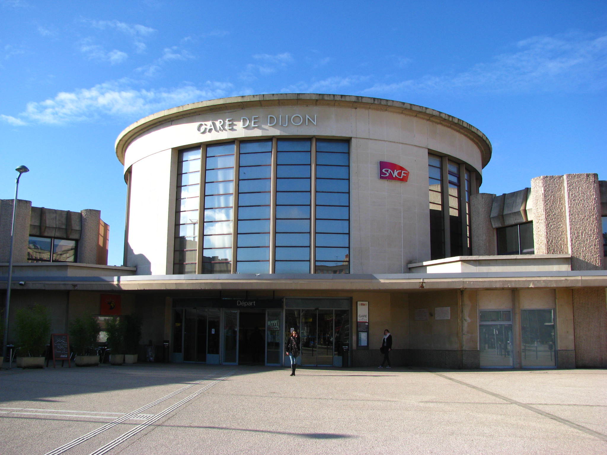 Front of the Gare de Dijon-Ville, in Dijon, Côte-d'Or, France. Replaces the older image since construction is over.